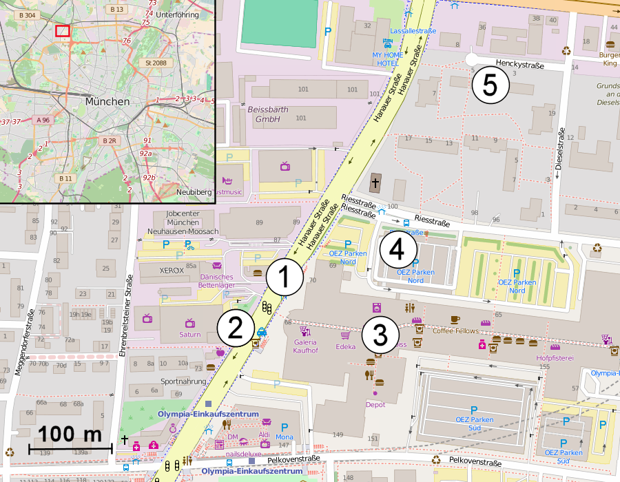 Places of the 2016 Munich shooting